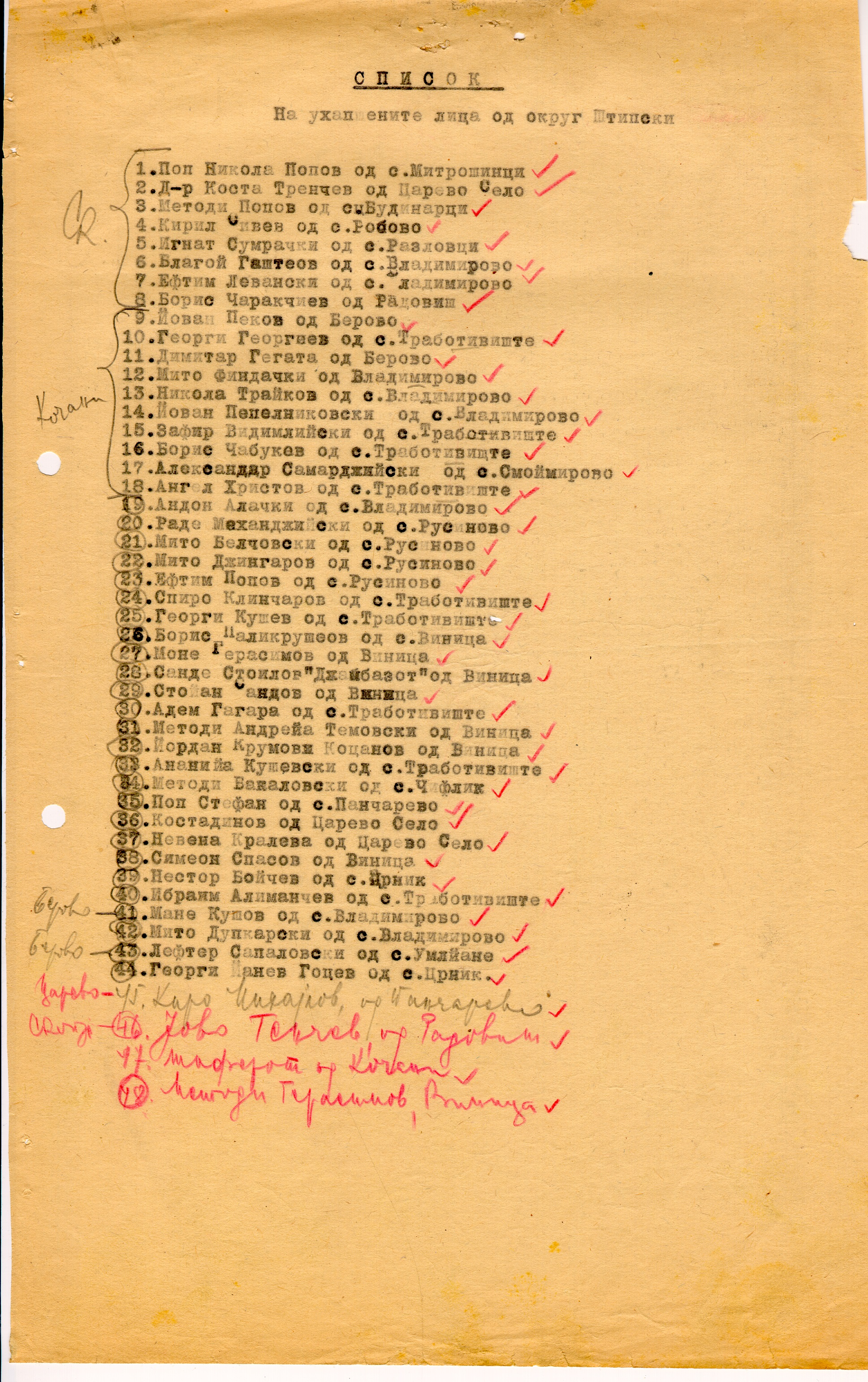 The list of members of VMRO in the Shtip region, arrested by the OZNA bodies, 1946 This media file is produced by Wikipedian in Residence in Category:Wikipedian in Residence at DARM in 2016.